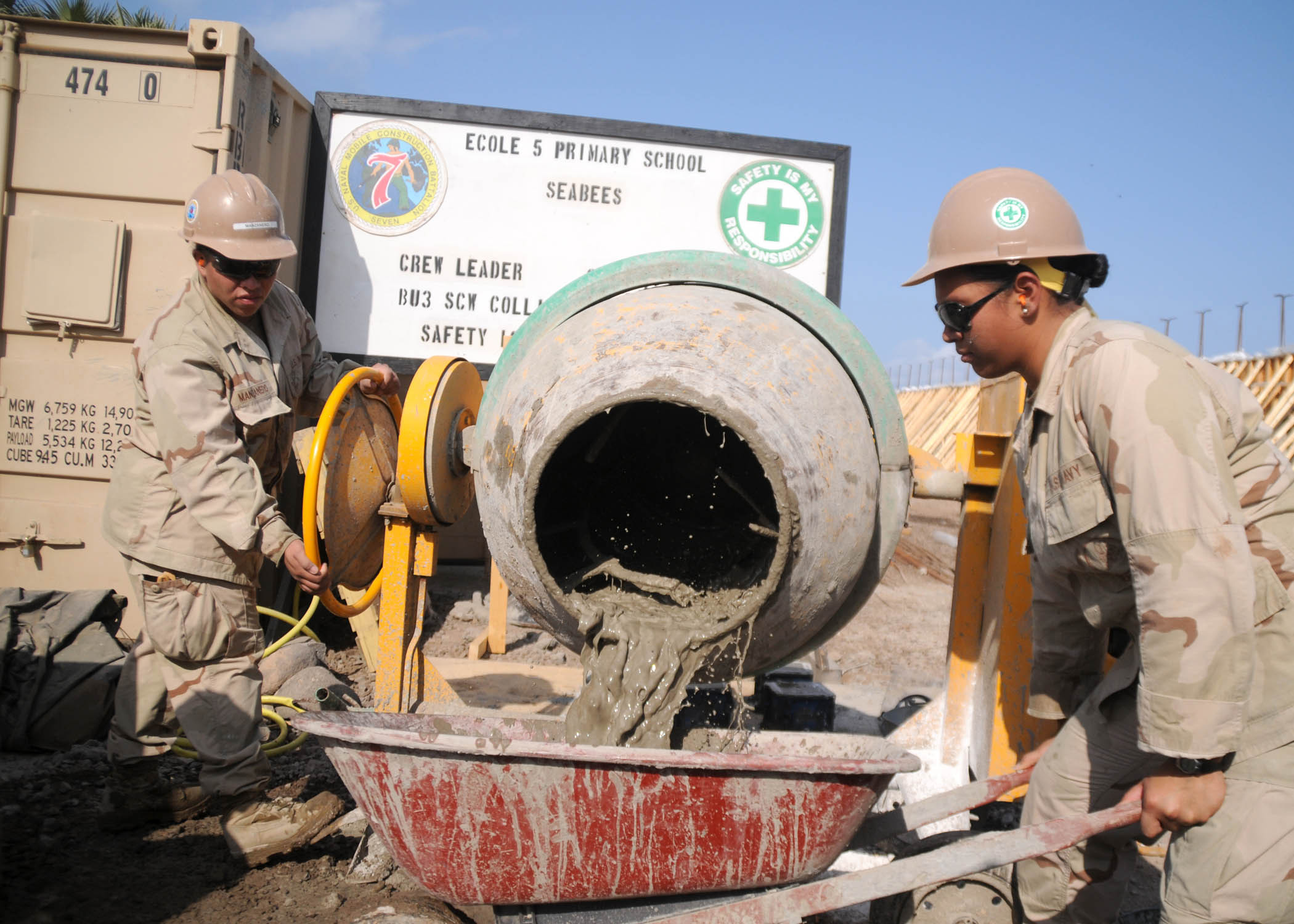 DJIBOUTI (Dec. 11, 2010) Builder Constructionman Bianca Manzanero, left, and Builder Constructionman Haani Leah, both assigned to Naval Mobile Construction Battalion (NMCB) 74 Detail Horn of Africa, rinse a mortar mixer used to mix sand, cement, lime and water to create stucco. NMCB-74 Detail Horn of Africa is deployed to Combined Joint Task Force-Horn of Africa to assist in building partner nation capacity and promoting regional stability. (U.S. Navy photo by Mass Communication Specialist 2nd Class Michael Lindsey/Released)